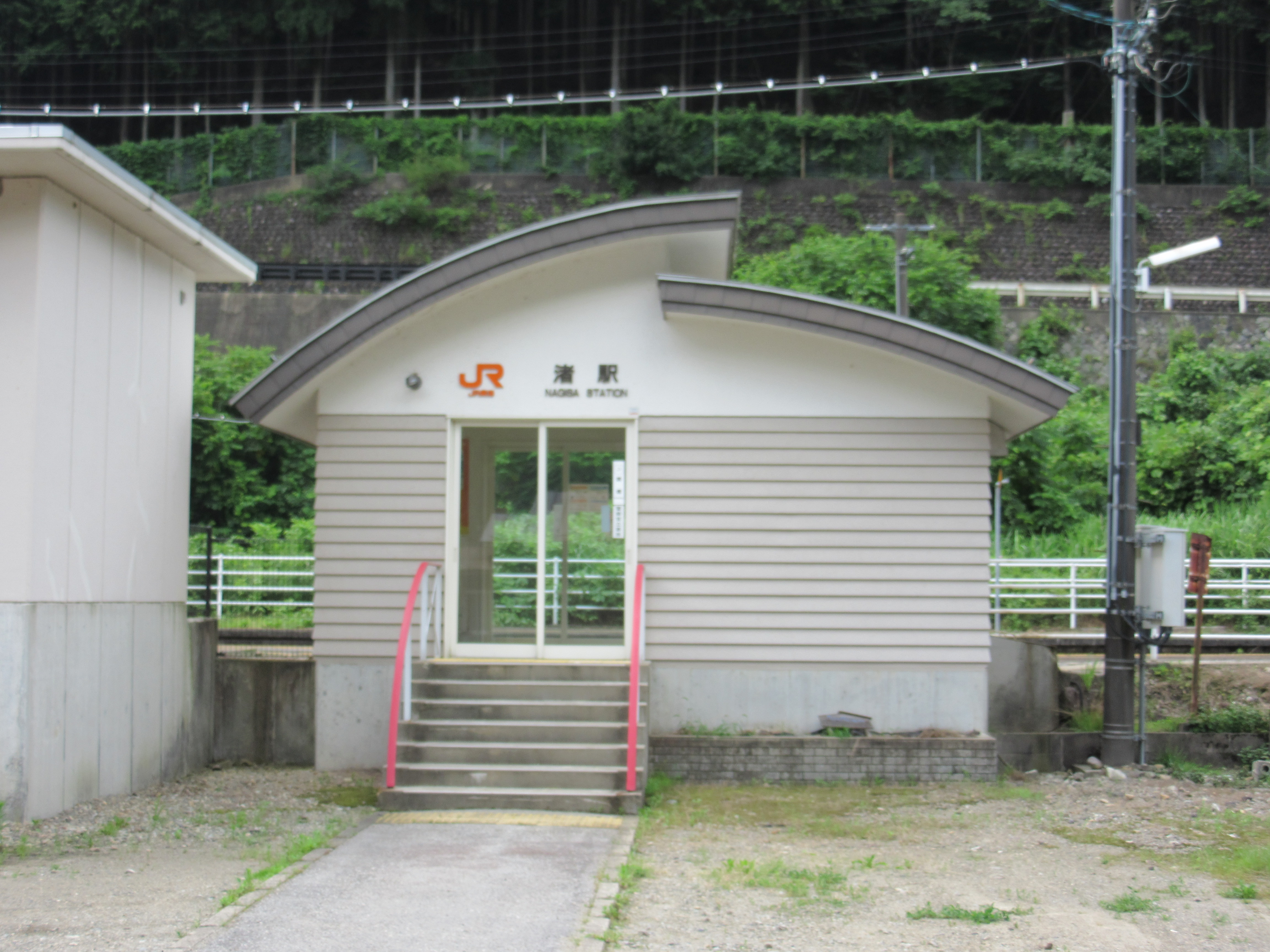 Nagisa Station on the JR Central Takayama Main Line. Canon PowerShot SX600 HS